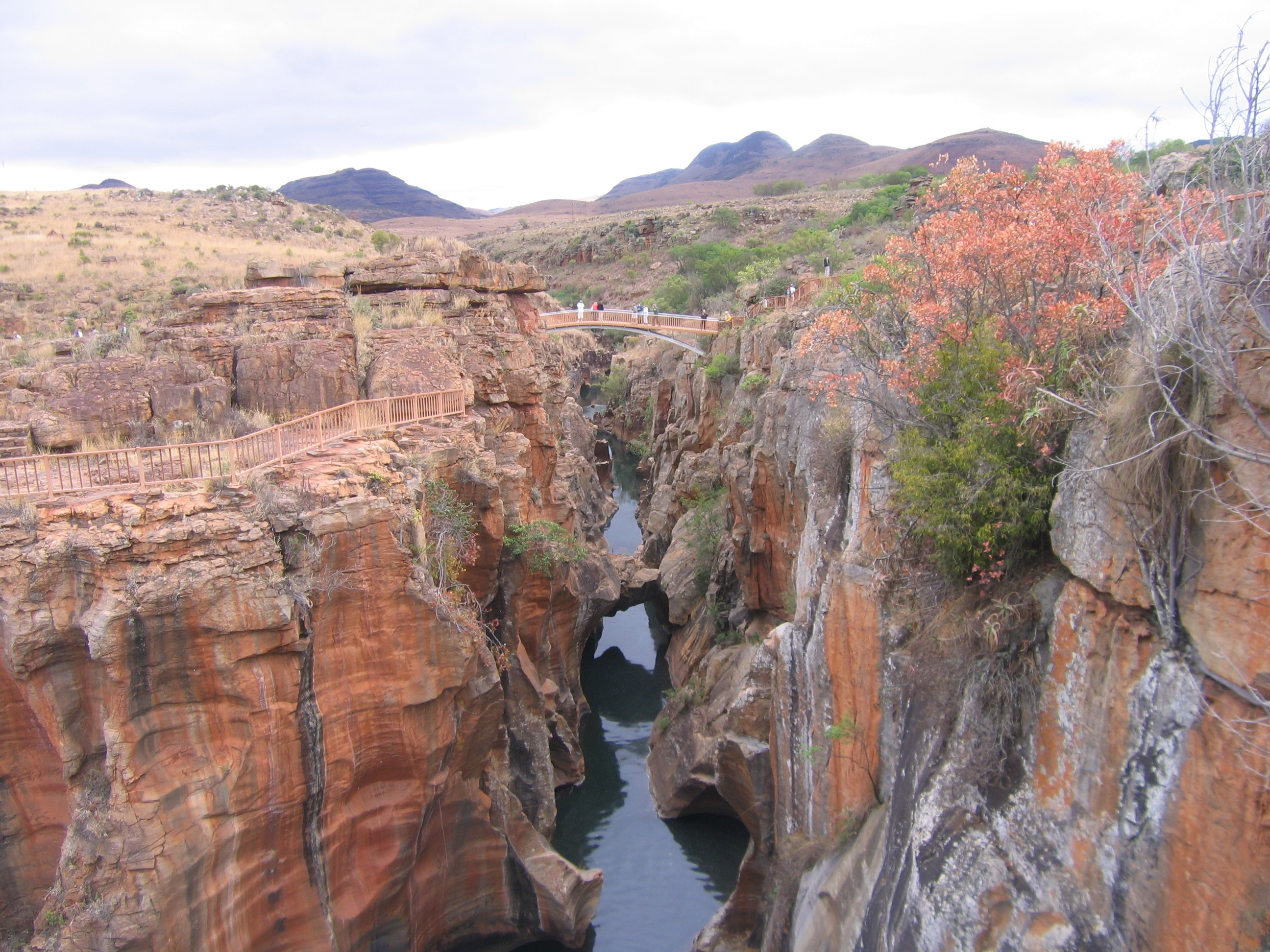 The Treur-Blyde confluence at Bourke's Luck Potholes, in the upper Blyde River Canyon, South Africa